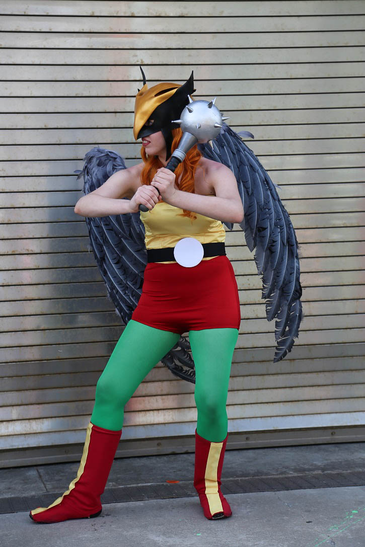 Special Edition NYC 2015 - Hawkgirl Cosplay at Special Edition: NYC in 2015.